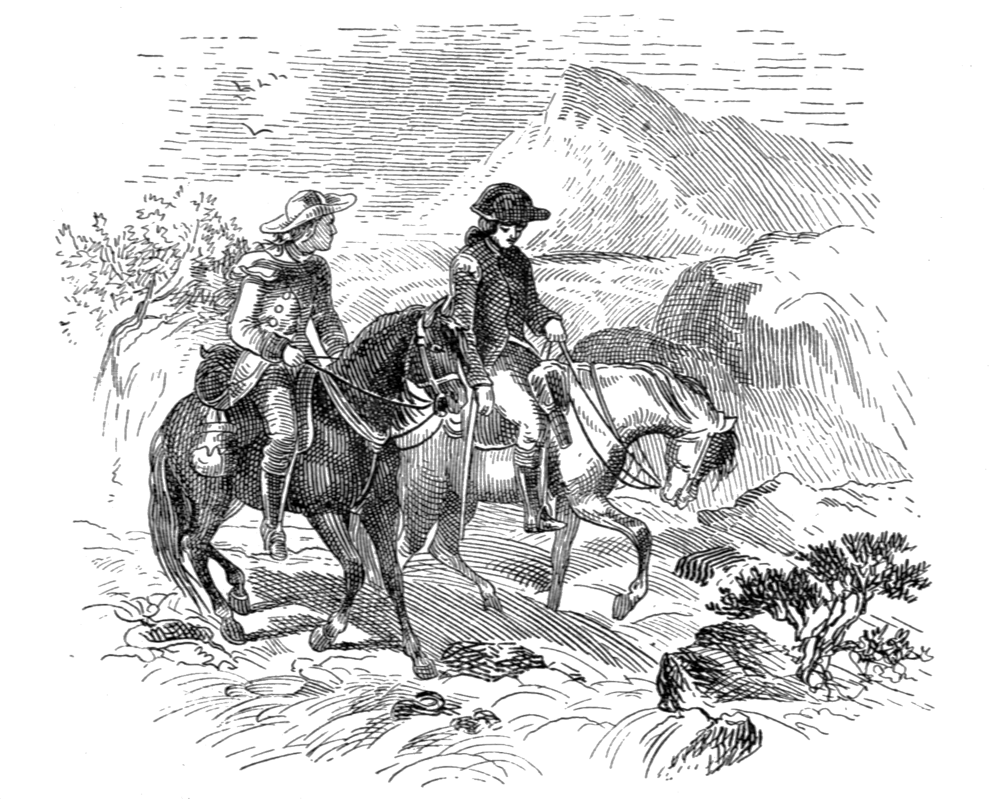 Illustration from a book "Southern life in southern literature; selections of representative prose and poetry (c1917)" edited by Maurice Garland Fulton, from and in the Public Domain